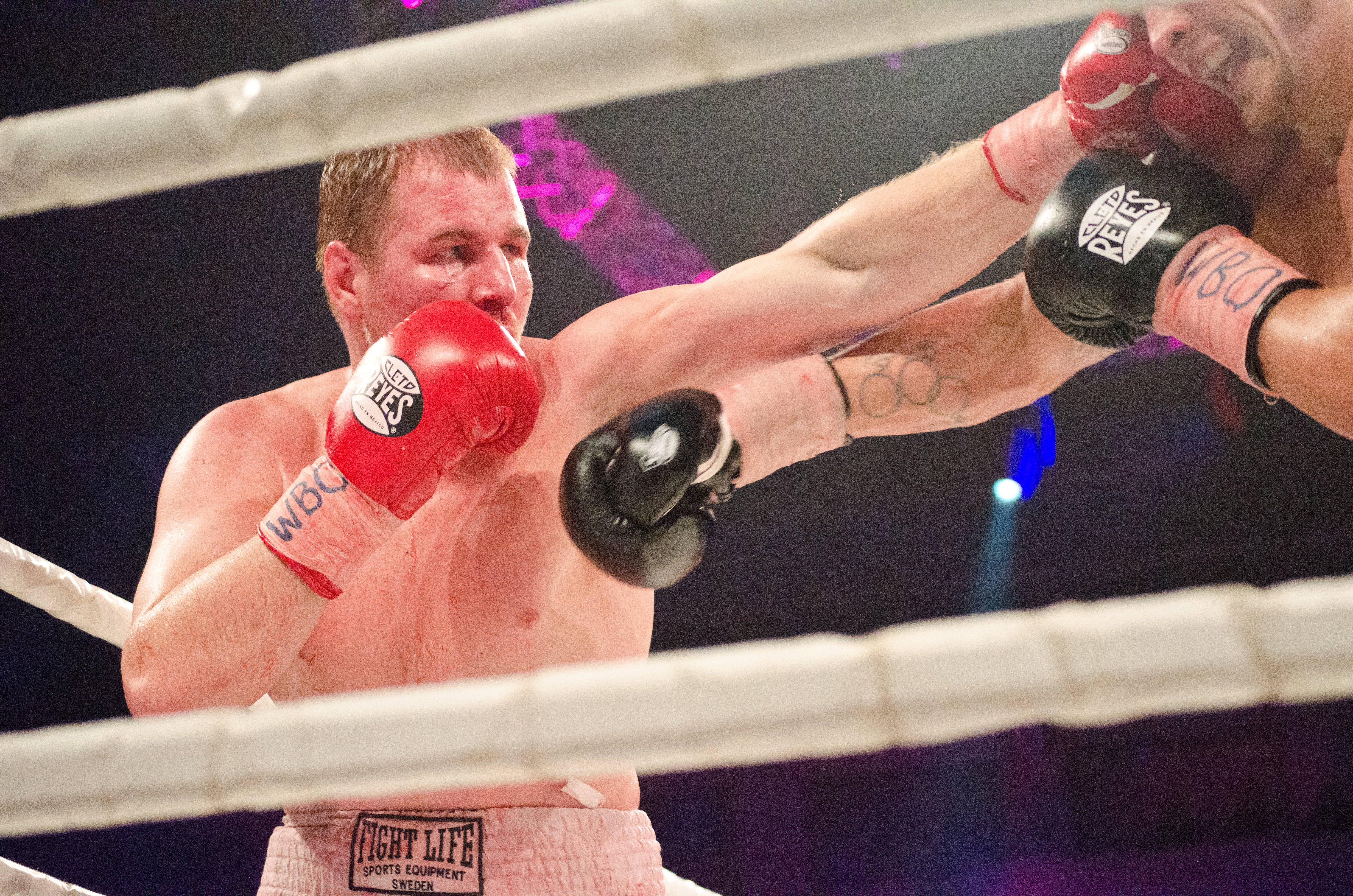 Oleksandr Usyk - Andrey Knyazev boxing fight, Kiev, Ukraine.